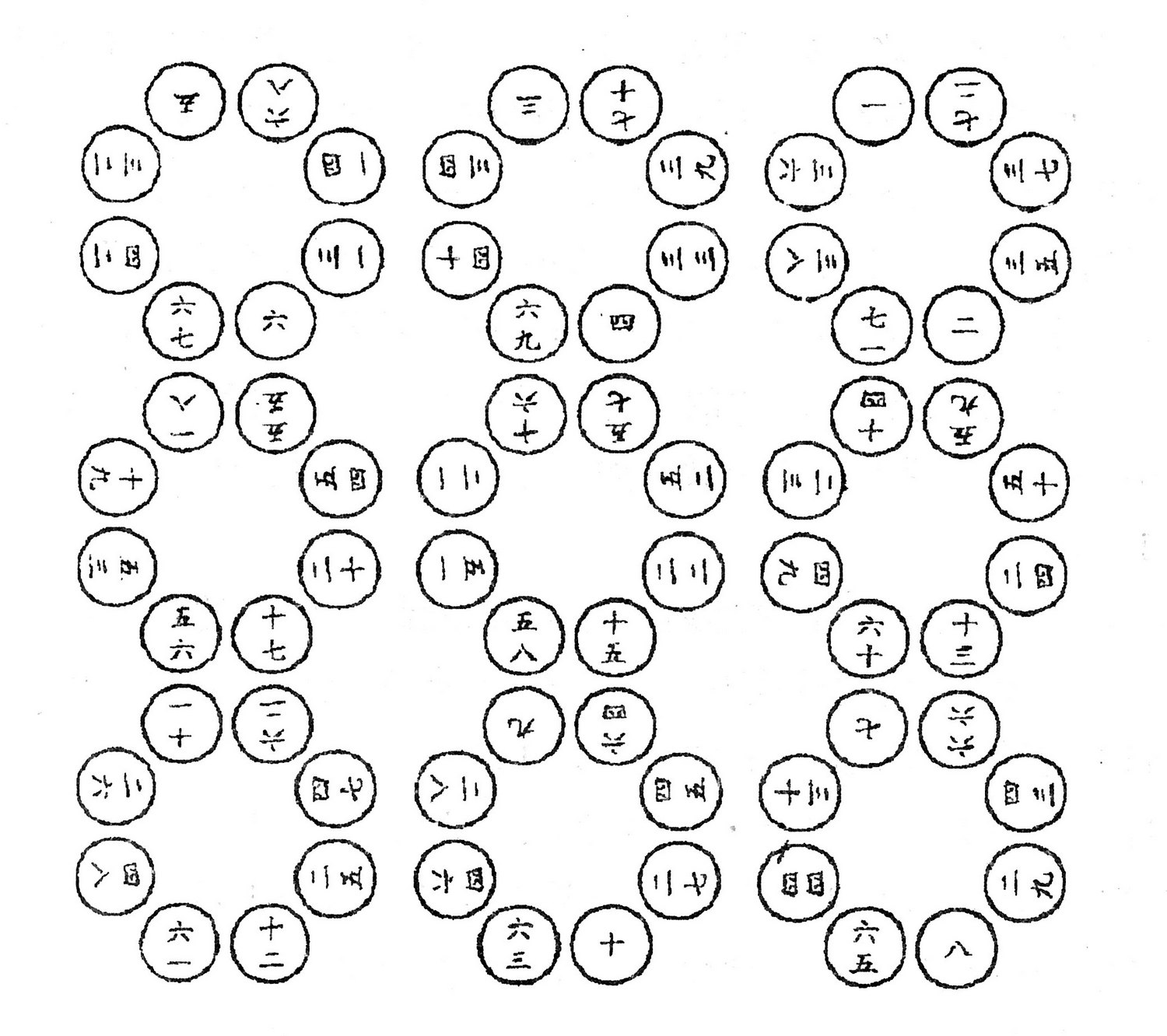 Yang Hui magic circle